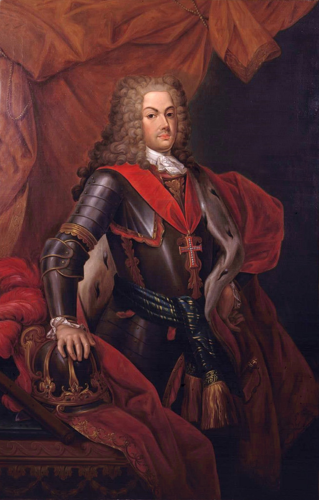 John V, King of Portugal.